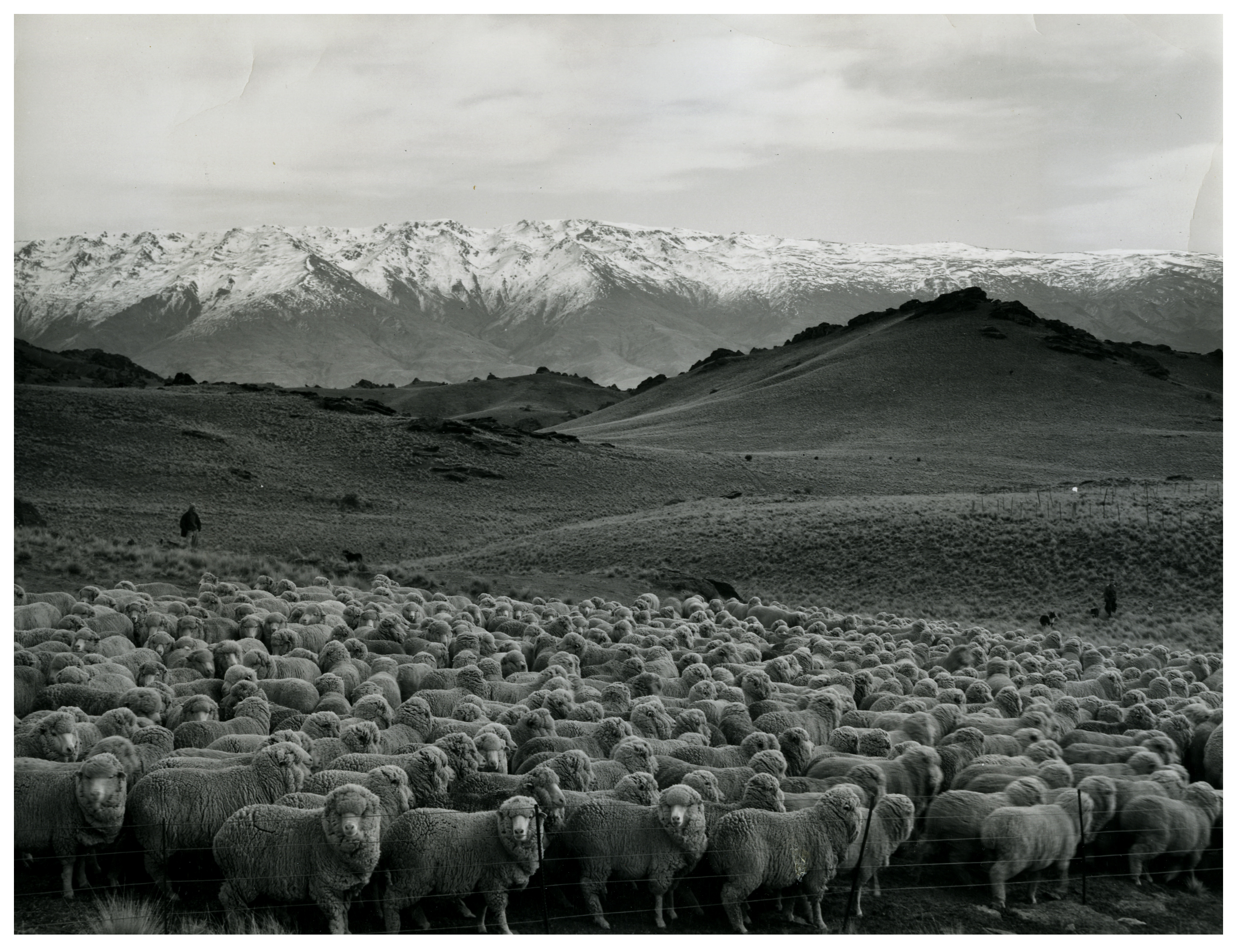 Shrek was a Merino wether belonging to Bendigo Station, a sheep station near Tarras, New Zealand, who gained international fame in 2004, after he avoided being caught and shorn for six years. Merinos are normally shorn annually, but Shrek apparently hid in caves, avoiding muster. He was named after the fictional character in books and films of the same name. After being caught on 15 April 2004, the wether was shorn by a professional in 20 minutes on 28 April. The shearing was broadcast on national television in New Zealand. His fleece contained enough wool to make 20 large men's suits, weighing 27 kg. Shrek became a national icon. He was taken to parliament to meet the then–New Zealand Prime Minister, Helen Clark, in May 2004. Shrek was euthanised on 6 June 2011 on the advice of a veterinary surgeon. The image shown here is of sheep mustering on Bendigo Station. The image was taken by Mr Anderson of the National Publicity Studios in September 1965. The purpose of the National Publicity Studios was to provide advice to government departments and state agencies on the provision of photographic, art, and display services and in particular to assist in the production of publicity material aimed at conveying a favourable image of New Zealand. The National Publicity Studios was divided into two main sections: Photographic - comprising photographers, a laboratory, a photo library and facilities for audio-visual productions & Art - comprising graphic art, display art, display workshops and silkscreen. Archives Reference: AAQT 6539 Box 61 A78066 For further enquiries please For updates on our On This Day series and news from Archives New Zealand, follow us on Twitter Material from Archives New Zealand